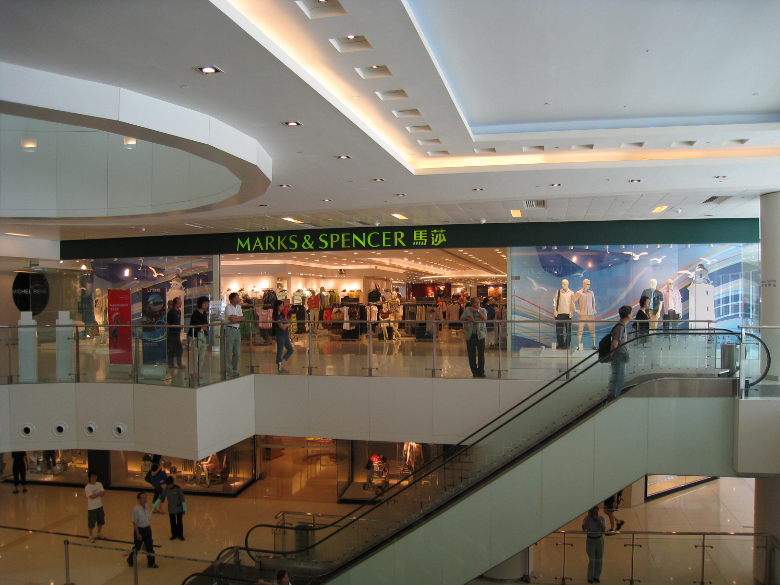 HK New Town Plaza Mark & Spencer 新城市廣場馬莎百貨